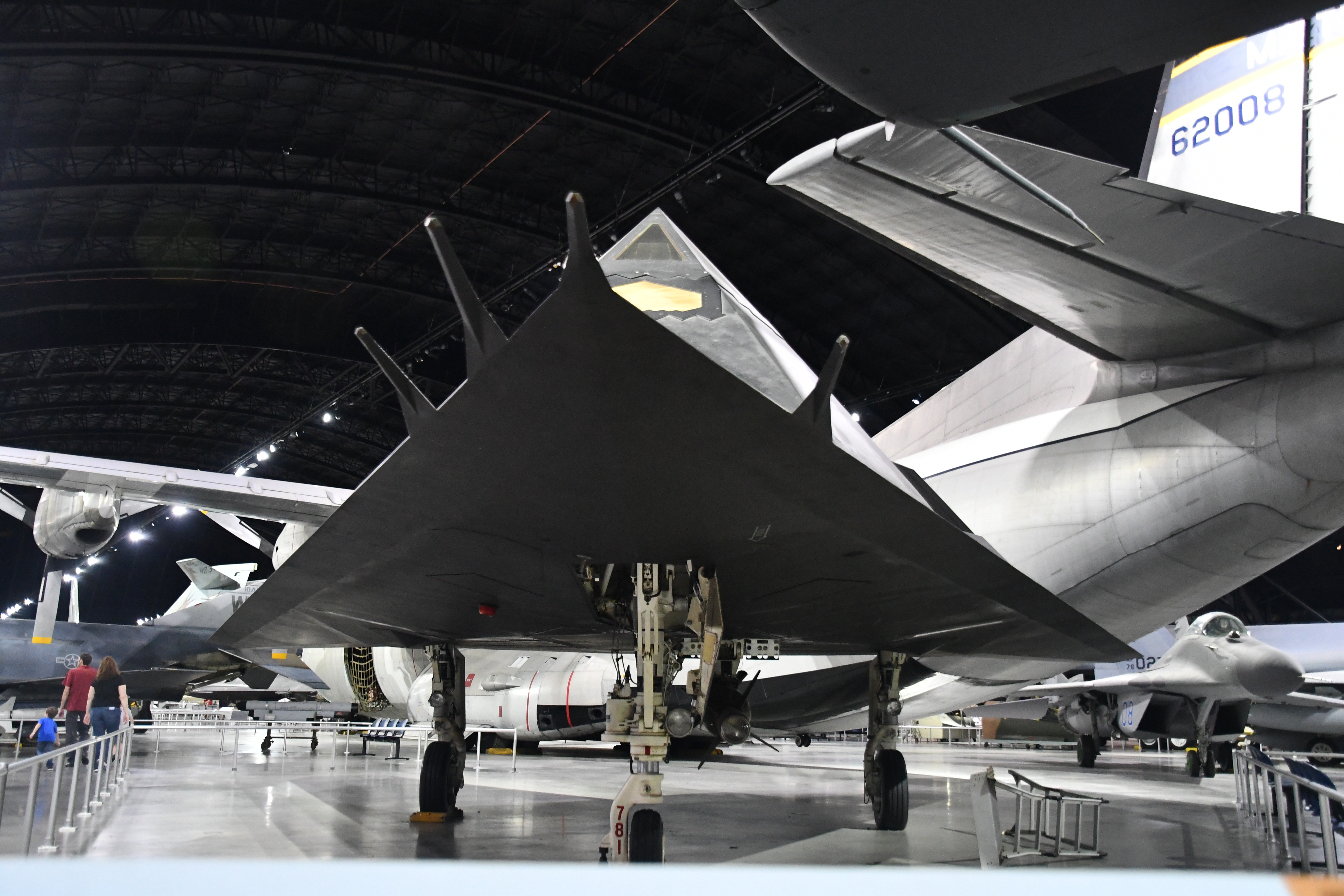 Wiev from below of the F-117 A at the National Museum of the United States Air Force, Dayton, OH